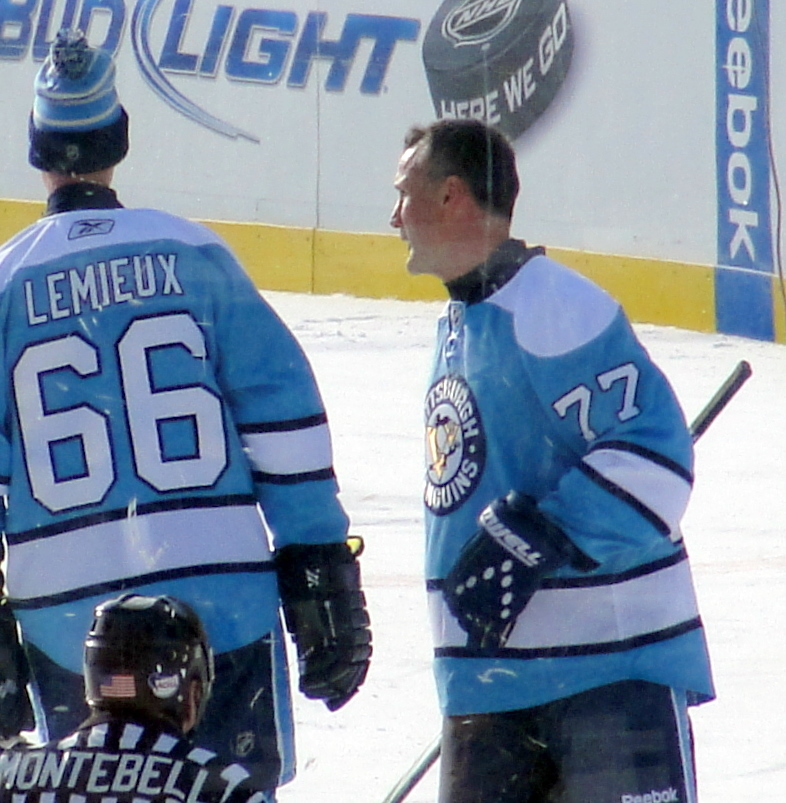 Mario Lemieux and Paul Coffey at the 2010 Alumni Game featuring former members of the Pittsburgh Penguins and Washington Capitals at Heinz Field in Pittsburgh, PA. December 31, 2010.